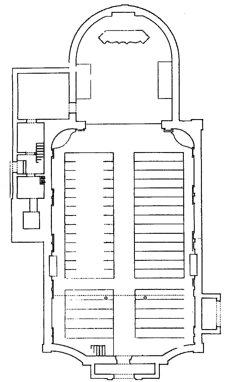 Edit by Walter Stöberl, Upload by User:Memmingen, Edit by User:Mrilabs